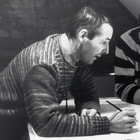 Photograph taken by Gilbert Moll of Jack Chambers in the studio's of Editions Canada London, Ontario, Canada